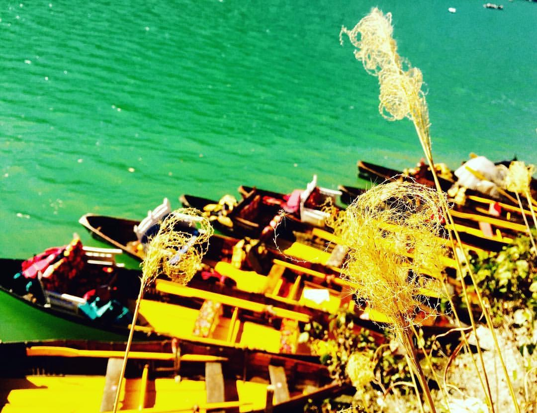 a photograph of Nainital also called city of lakes...